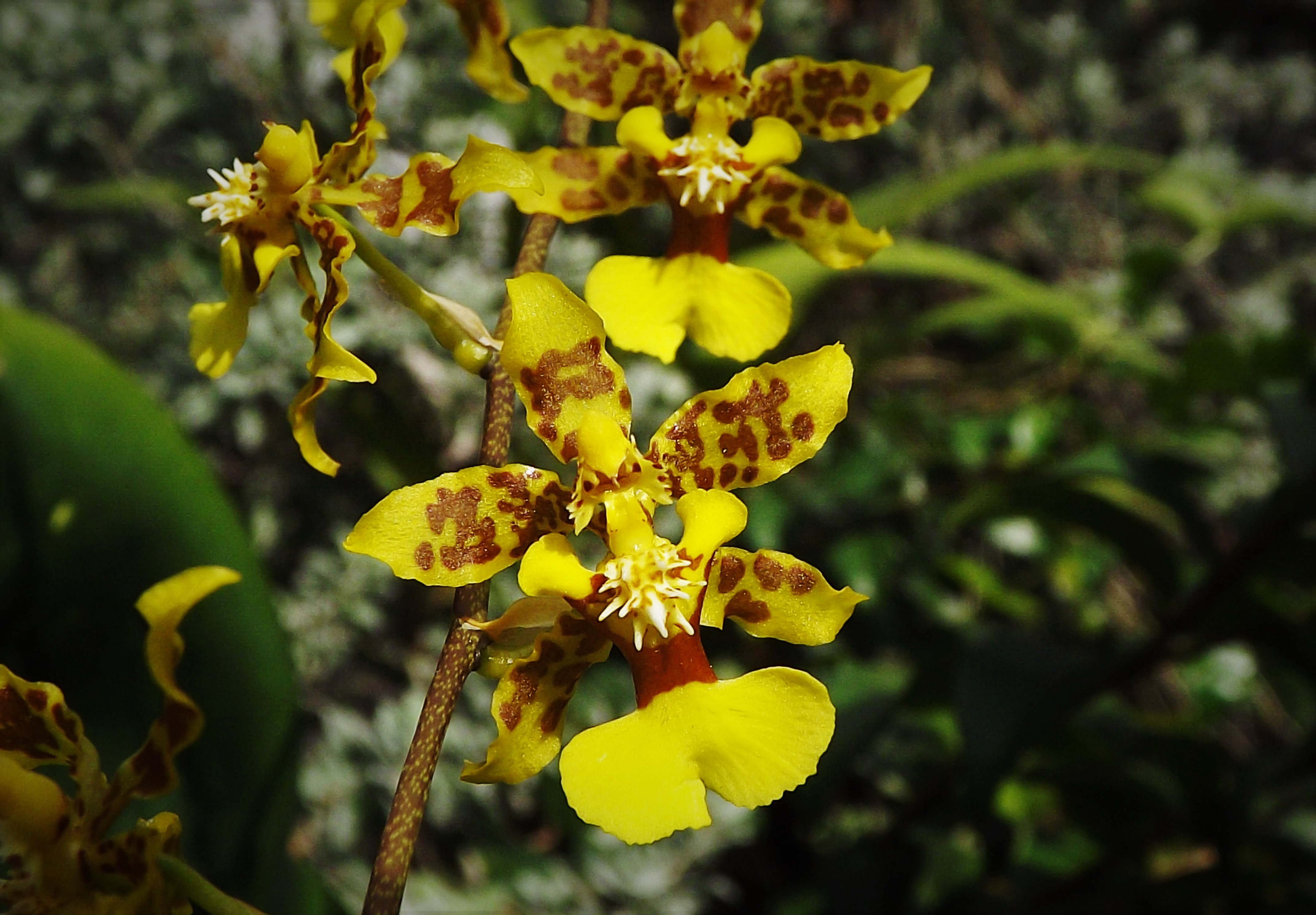 Trichocentrum cebolleta, Orchids of Venezuela